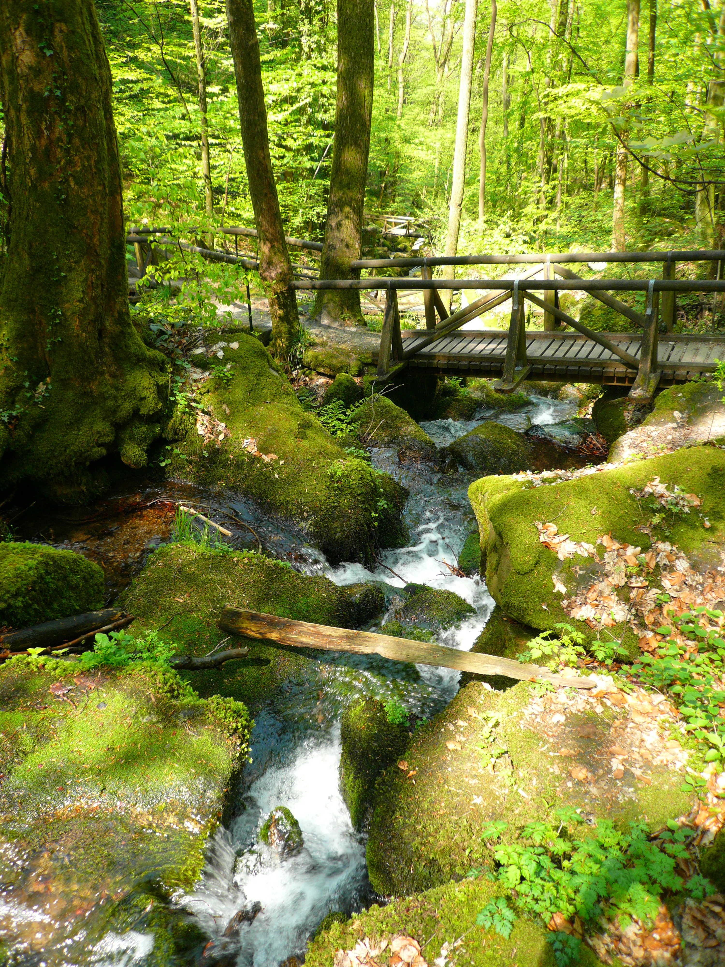 Gaishoelle, a waterfall near Baden-Baden